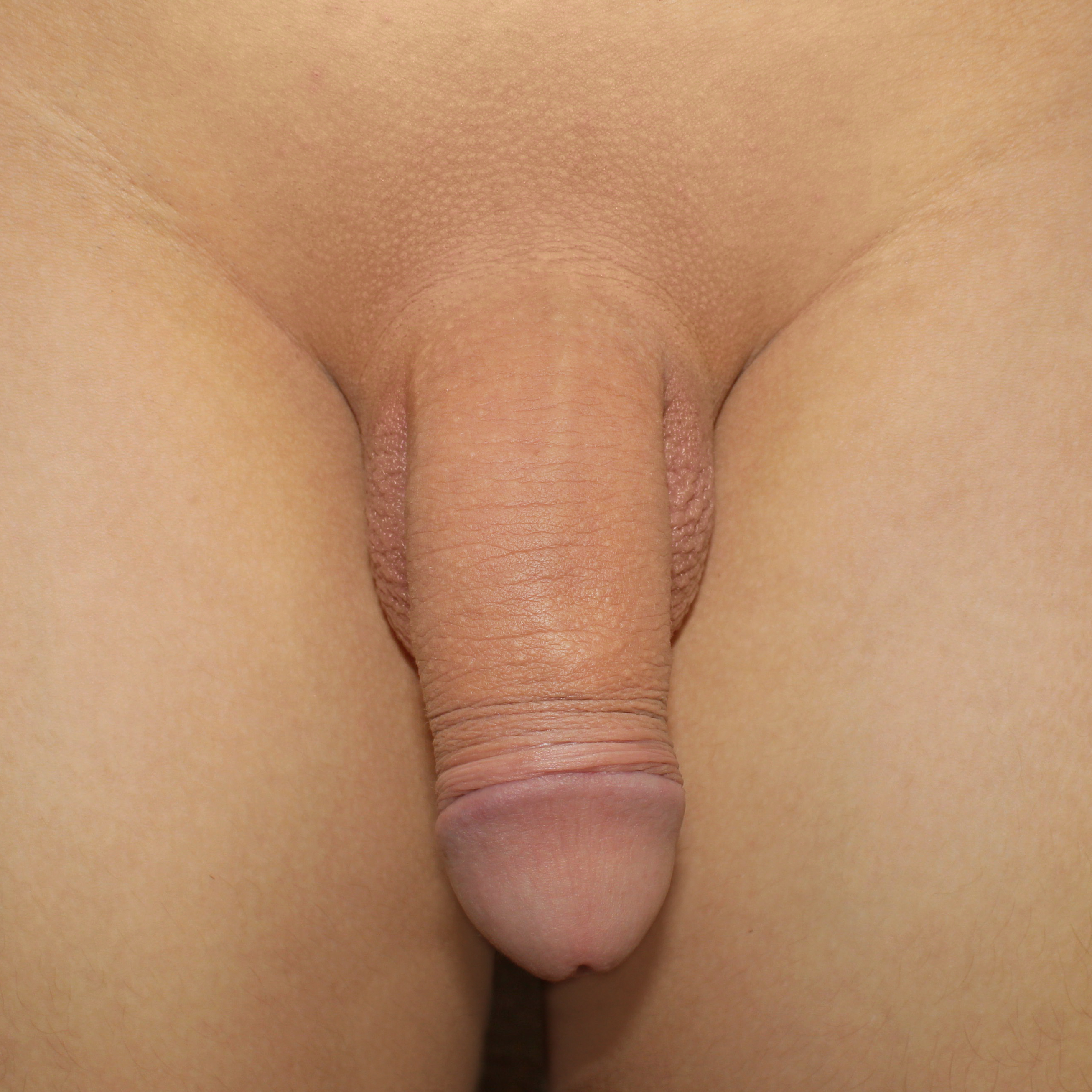 A flaccid uncircumcised penis with retracted foreskin. It looks similar to a circumcised penis, which does not have foreskin.